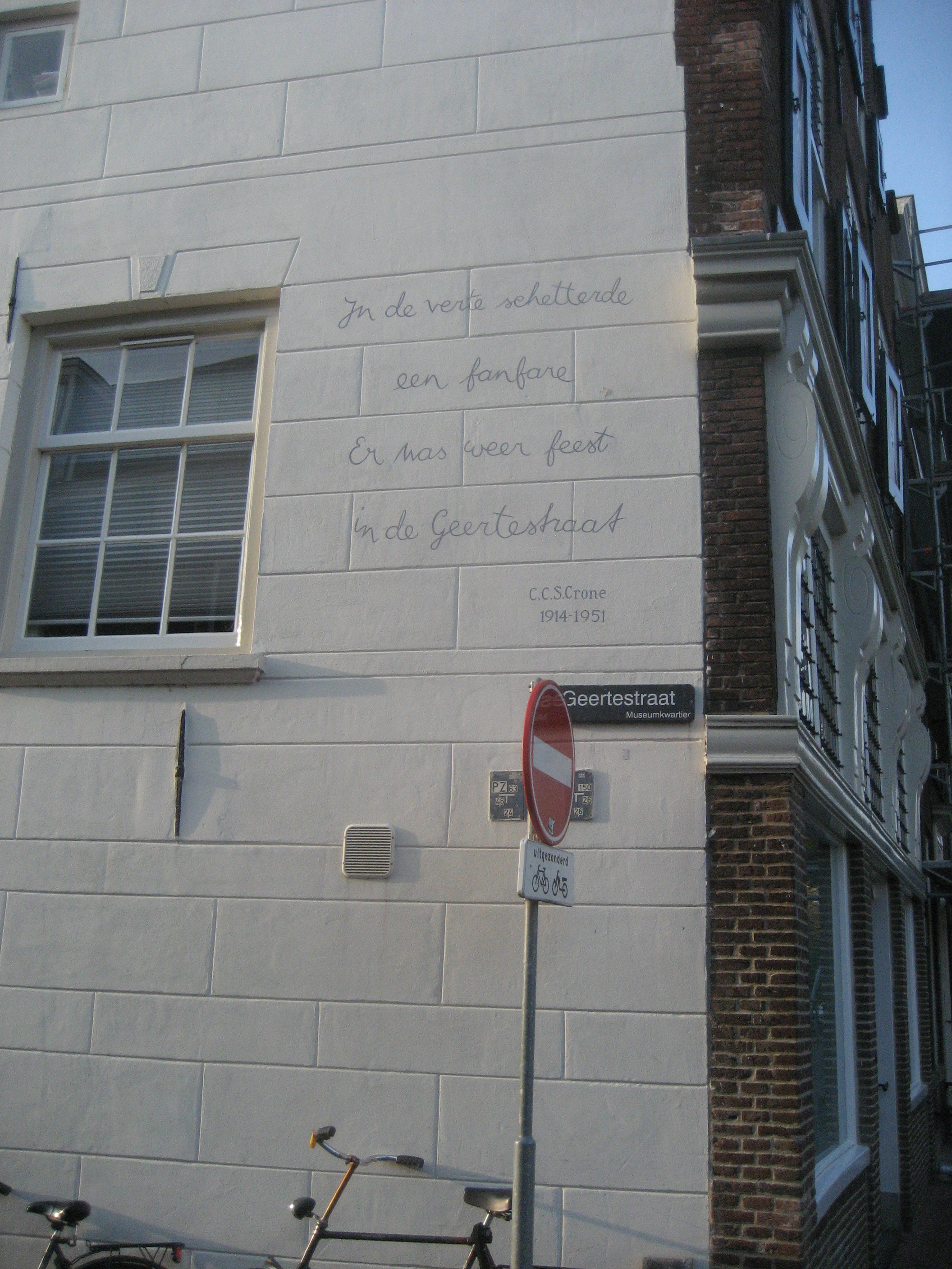 Text of Dutch writer C.C.S. Crone on a wall in the Geertestraat, Utrecht. The text reads: "In de verte schetterde een fanfare. Er was weer feest in de Geertestraat".